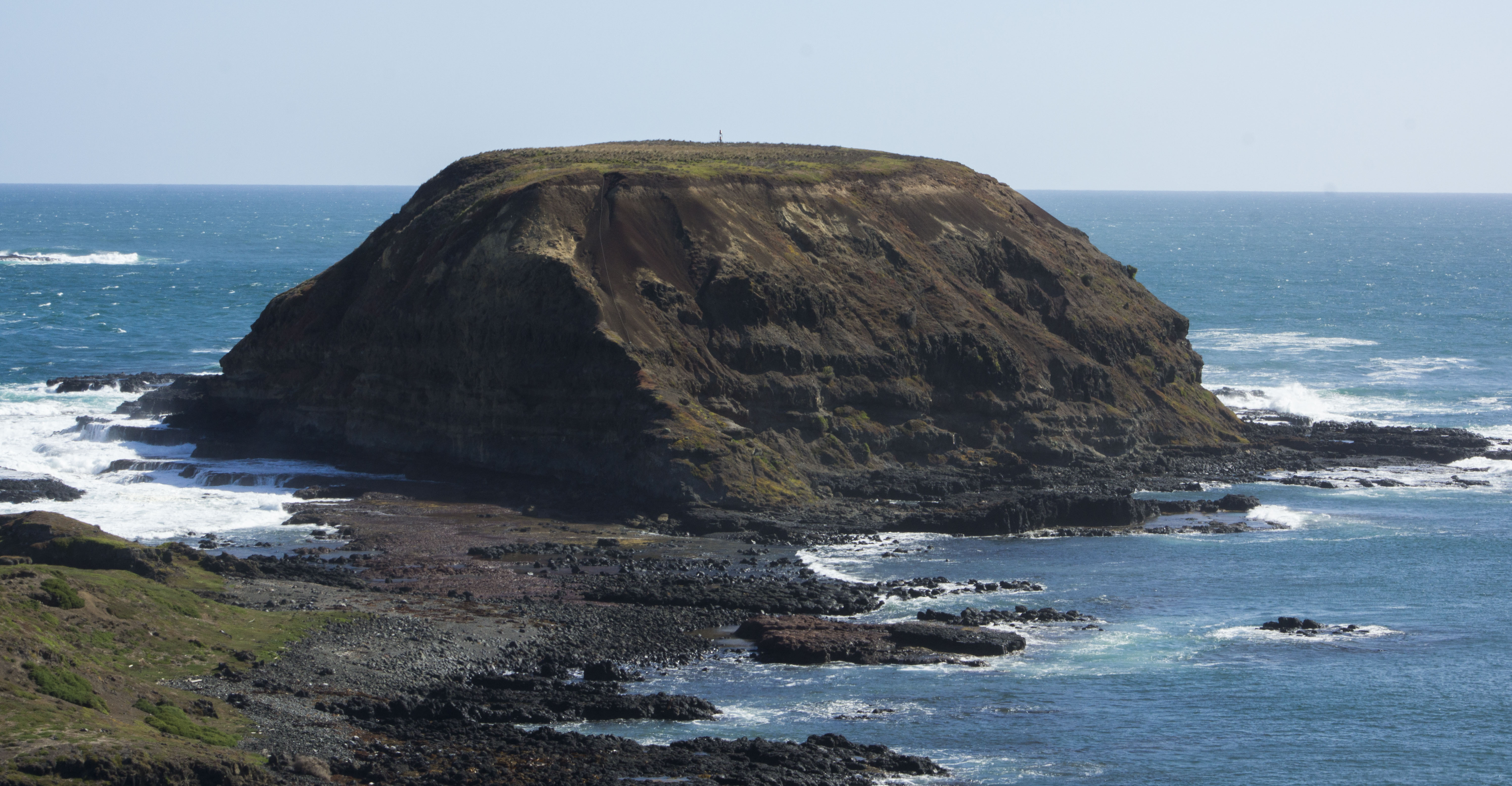 This is Seal Rock in Phillip Island, Victoria and is home to Australia's largest seal colony